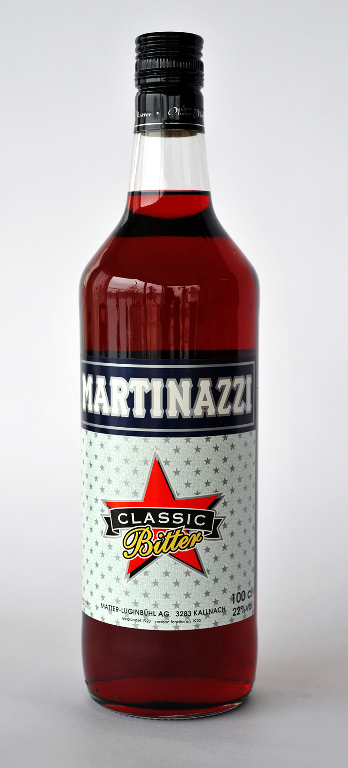 1l Bottle Martinazzi